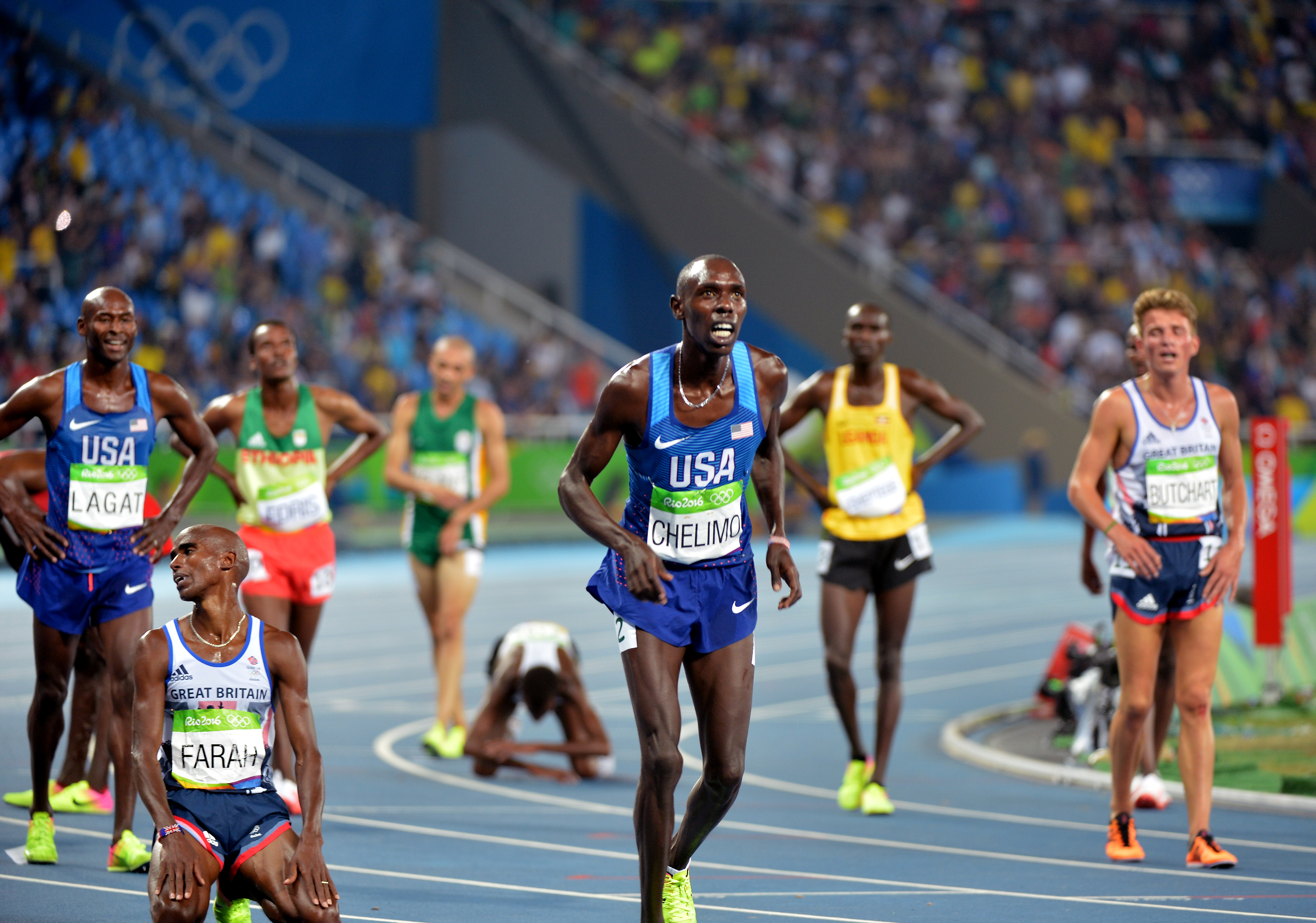 Spc. Paul Chelimo checks the video screeen after his second-place finish in the men's 5,000-meter run Aug. 20 in the Rio Olympic Games at Rio de Janeiro while Chelimo's idol and U.S. teammate Bernard Lagat, who finished fifth, watches his young protege. Gold medalist Mo Farah of Great Britian remains on his knees following his post-race traditio of kissing the track. The scene came before a roller-coaster ride of emotions for Chelimo, who was disqualified from the race and later reinstated via a successful appeal by USA Track & Field officials that delayed their medal ceremony until the final event of the evening at Olympic Stadium. U.S. Army photo by Tim Hipps, IMCOM Public Affairs